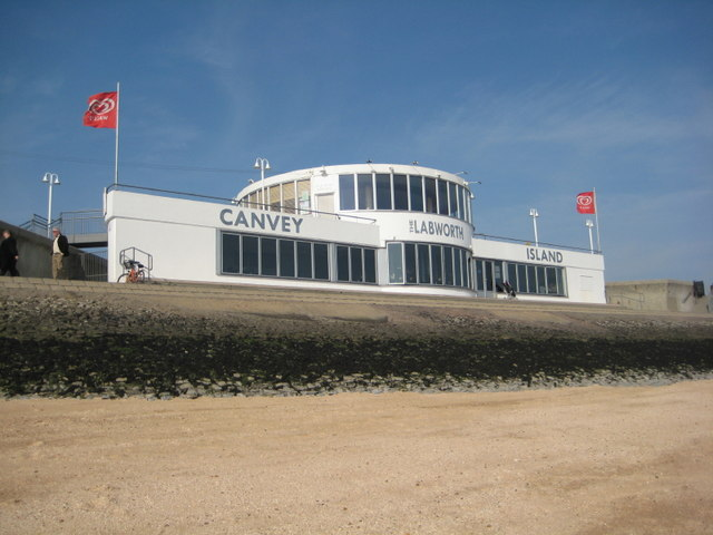 Labworth Cafe Canvey Seafront The only project designed by Ove Arup, a famous Anglo-Danish designer. His design firm, Arup, was also responsible for the Sydney Opera House and the Pompidou Centre. Built in 1932-33, the cafe is said to be based on the bridge of the Queen Mary. It certainly serves up meals fit for a Queen.